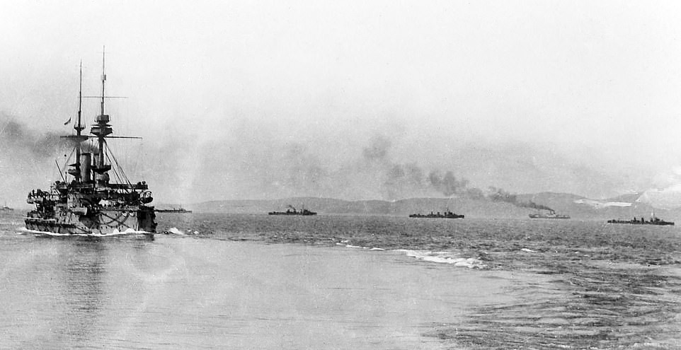 British battleship HMS Majestic leaving Mudros harbour during the Battle of Gallipoli, 1915. Photo by Ellis Ashmead-Bartlett (1881-1931) Caption reads: H.M.S. Majestic, that was sunk off the Gallipoli Peninsula, leaving Mudros Bay with a number of destroyers.